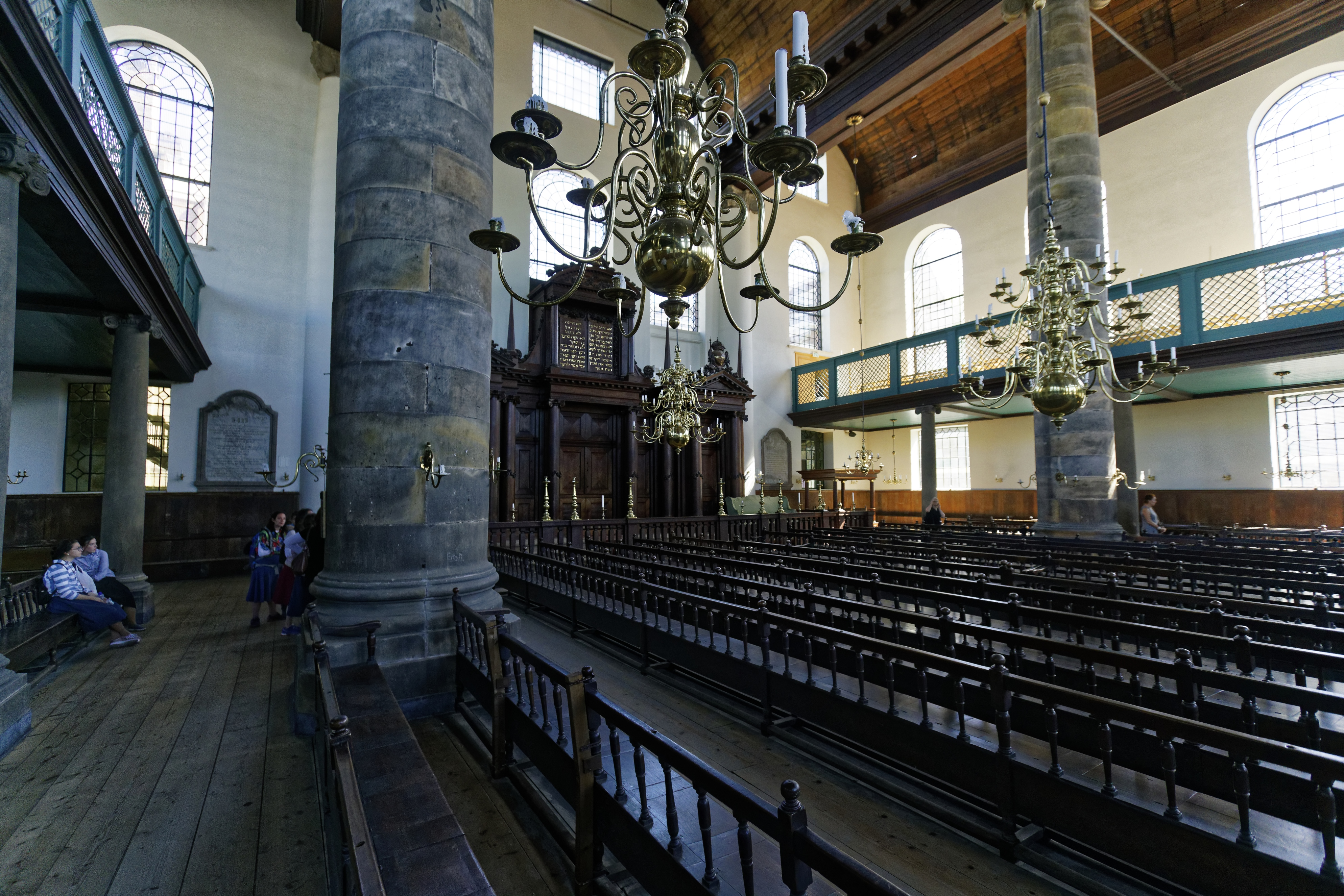 Amsterdam - Daniel Meyerplein - Portuguese Synagogue 1675 - Interior View